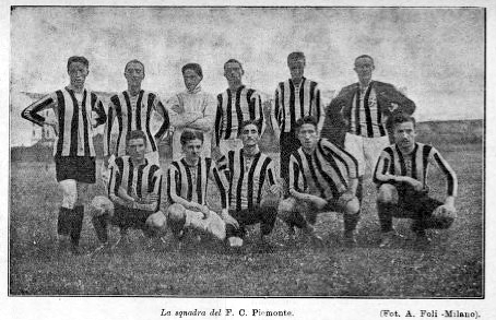 Piemonte FC in 1911.